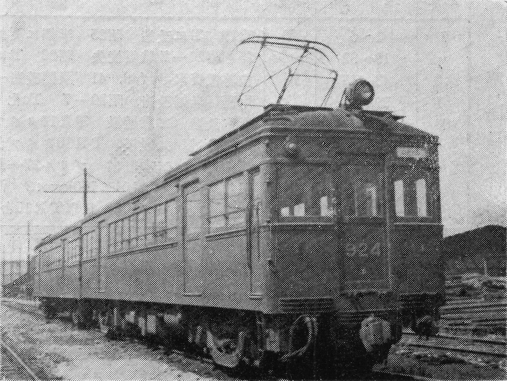 Hankyu Railway #924 Built in 1934